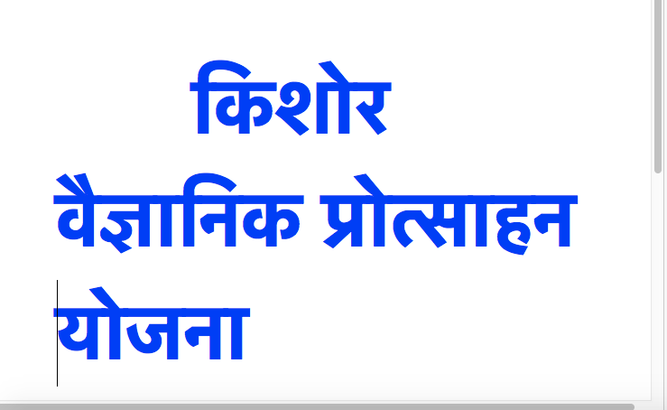 for teenagerds